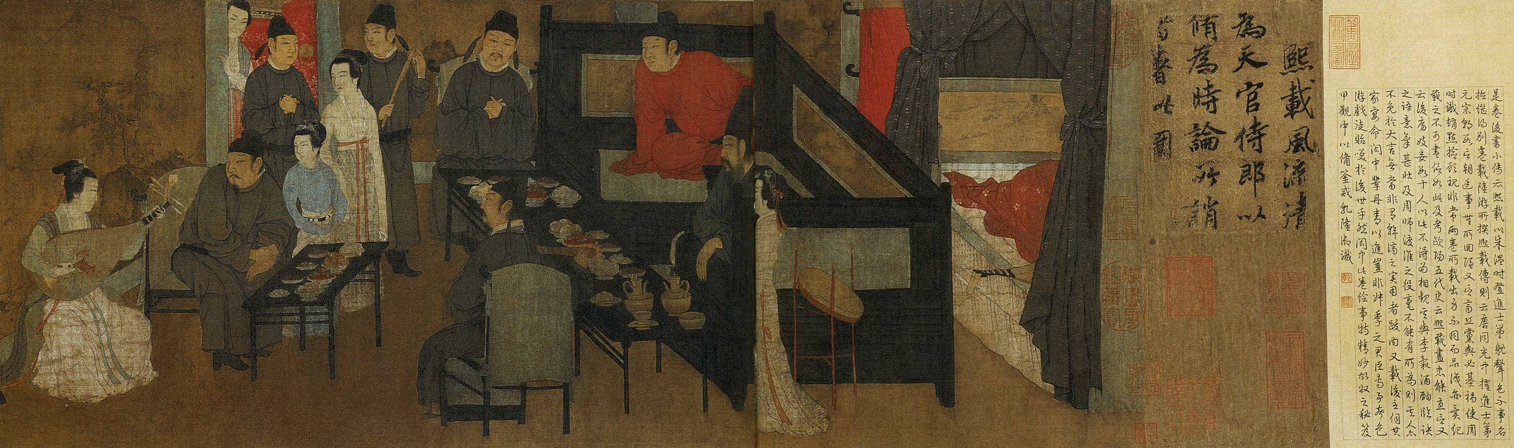 Night Revels